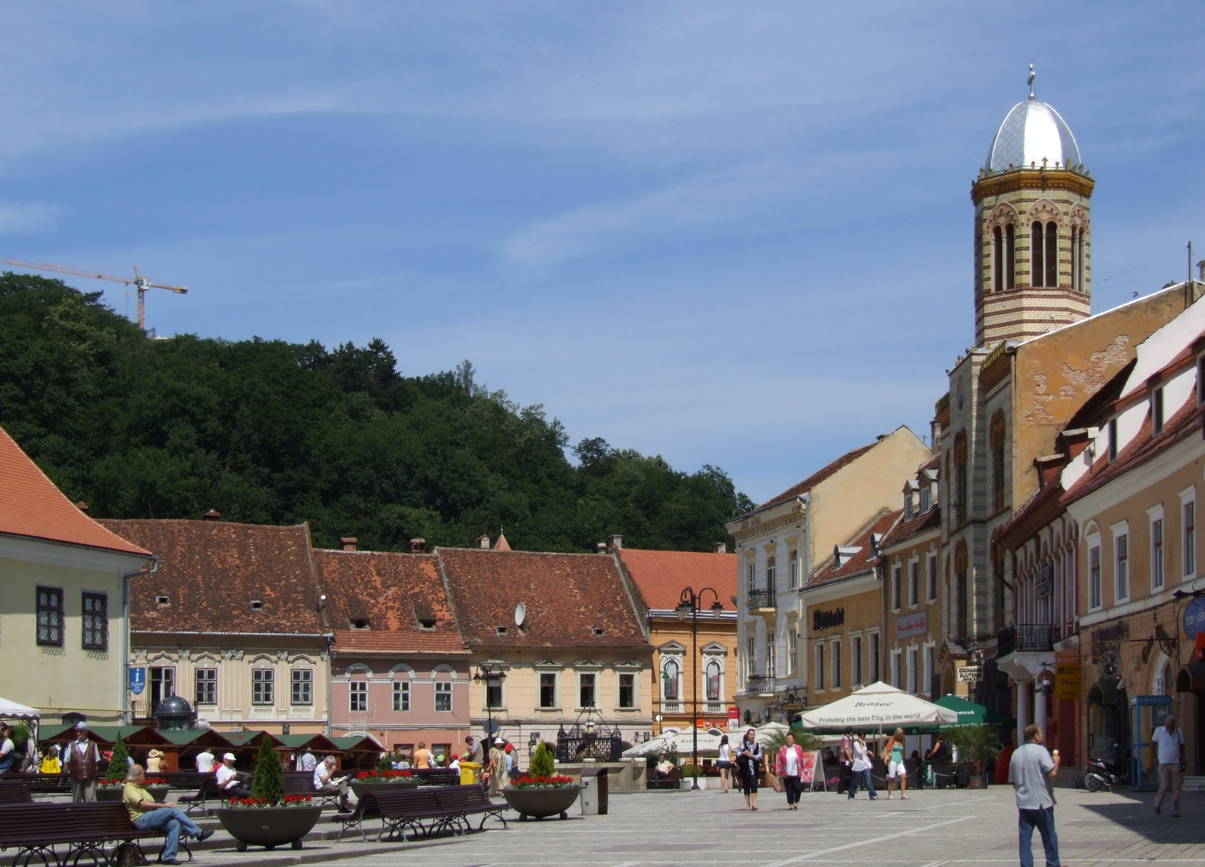 Brașov (Kronstadt, Brassó) - Piaţa Sfatului (market square)